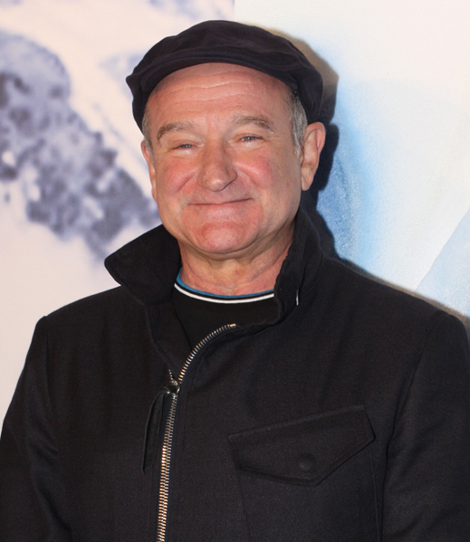 Robin WIlliams at the Happy Feet Two Australian Premiere, Moore Park, Fox Studios